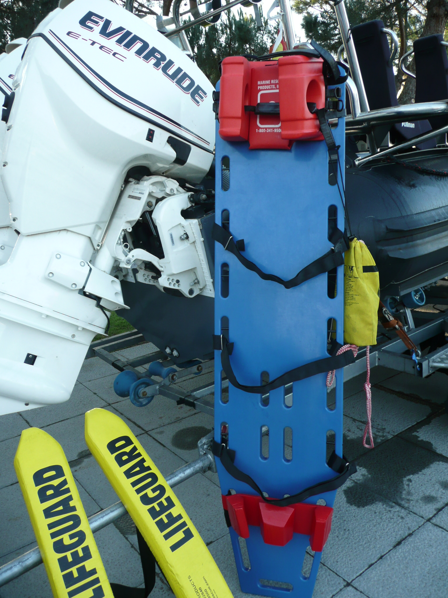 Table for transporting injured persons or bodies located in the water.